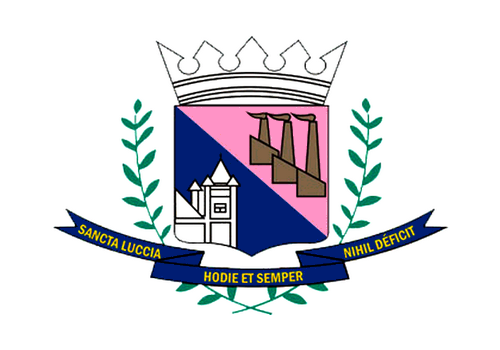 High Resolution Flag of the municipality of Santa Luzia.